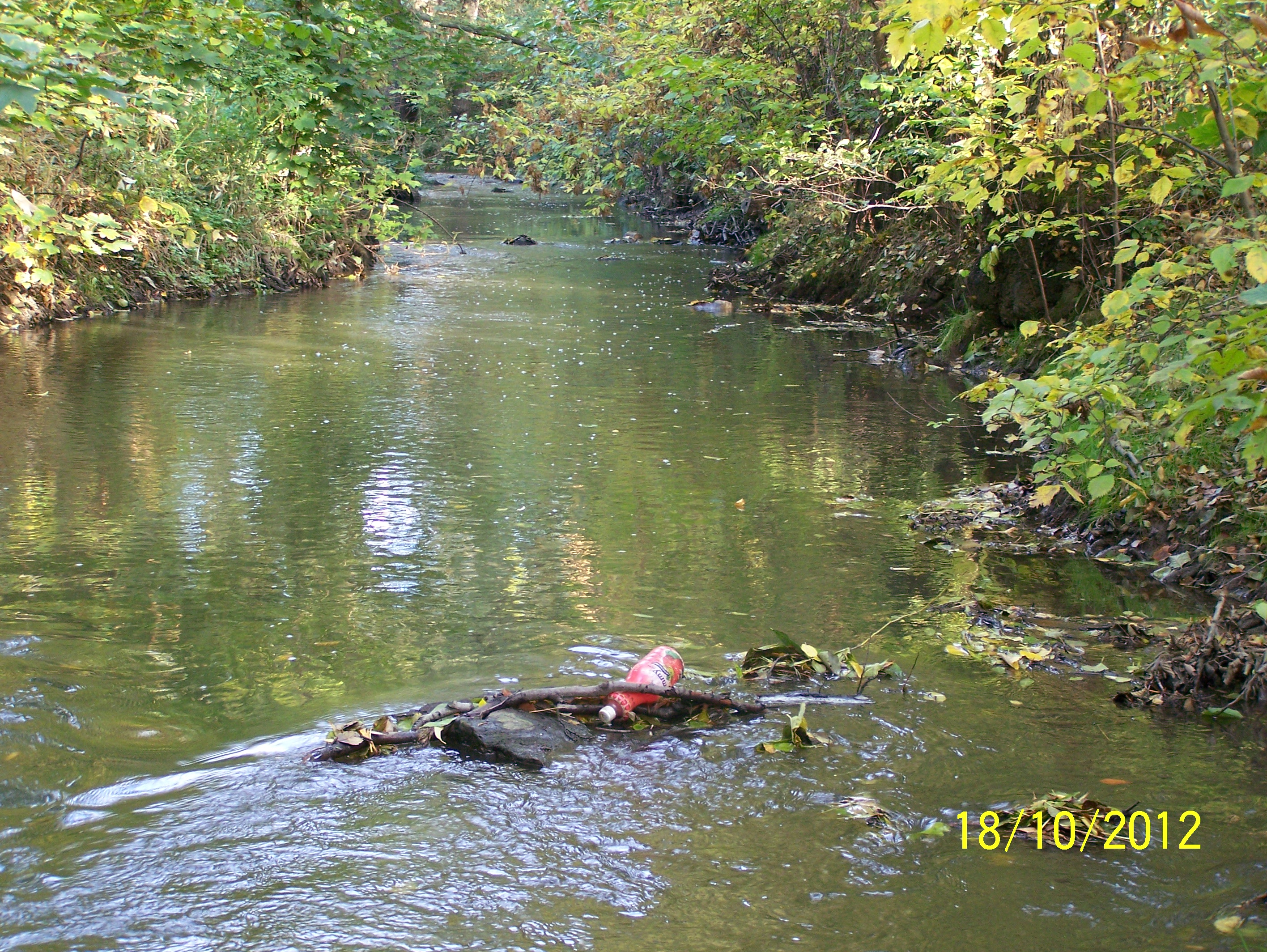 Natural monument Meandry Botiče in Prague, Czech Republic